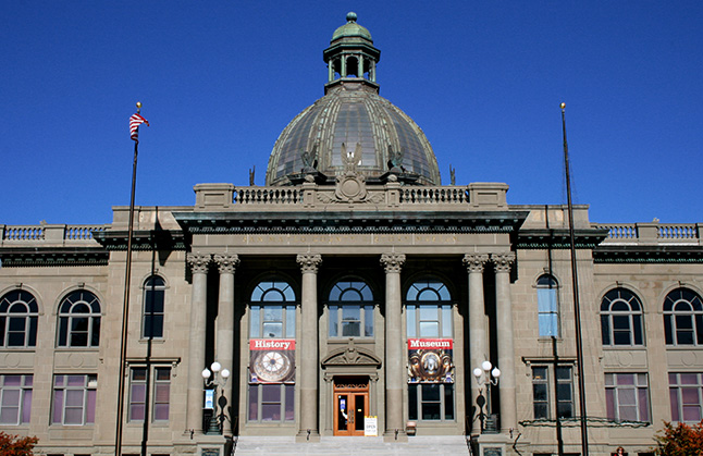 The San Mateo County History Museum, located in the 106-year-old "Old Courthouse"